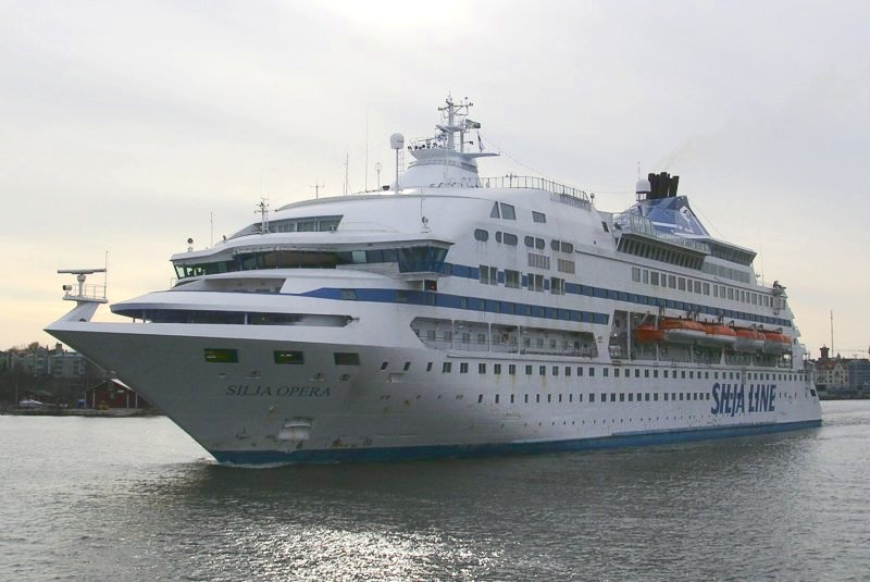 M/S Silja Opera departing Helsinki South Harbour, probably in summer 2004.